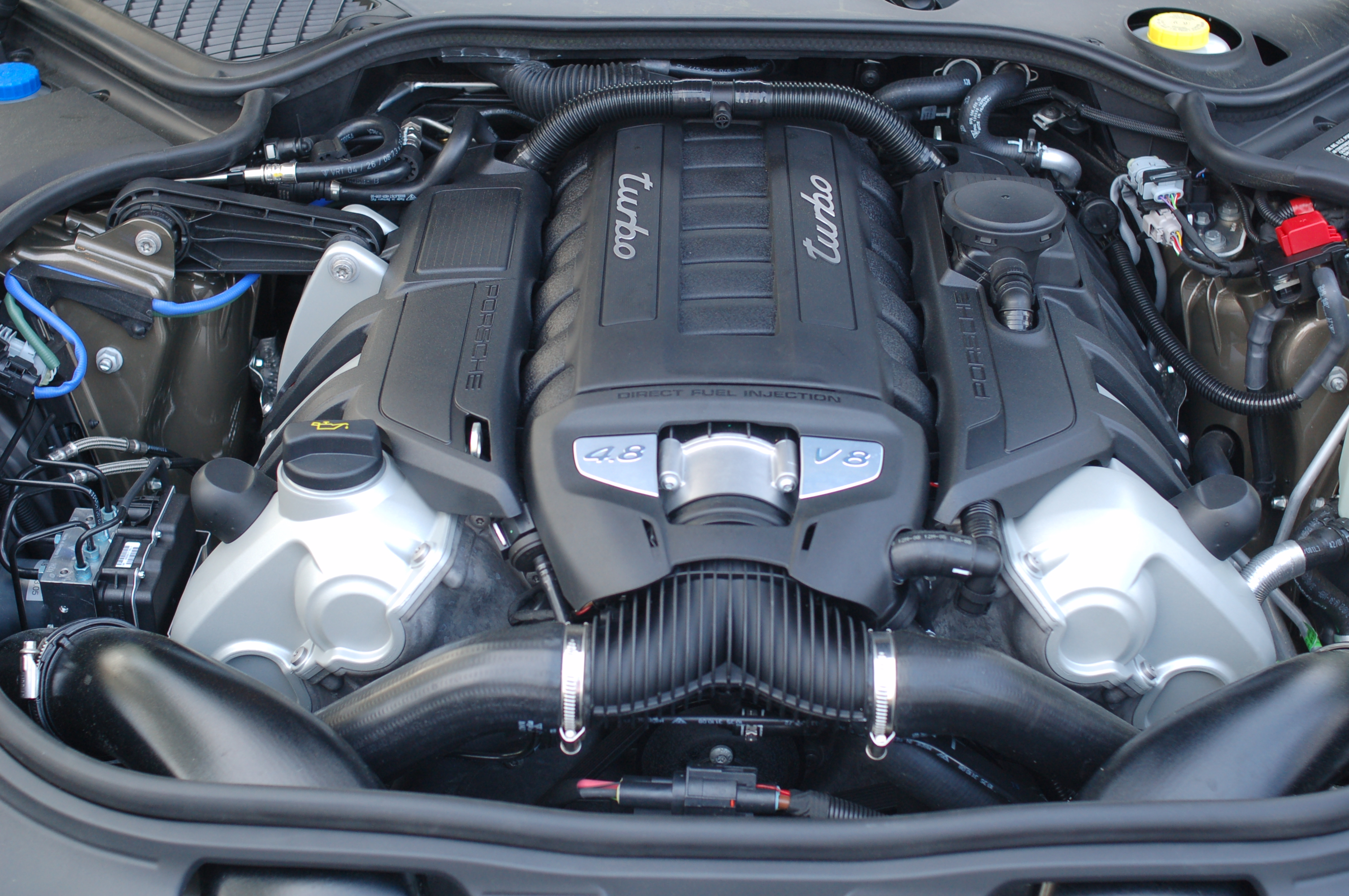 Porsche Panamera Turbo Engine